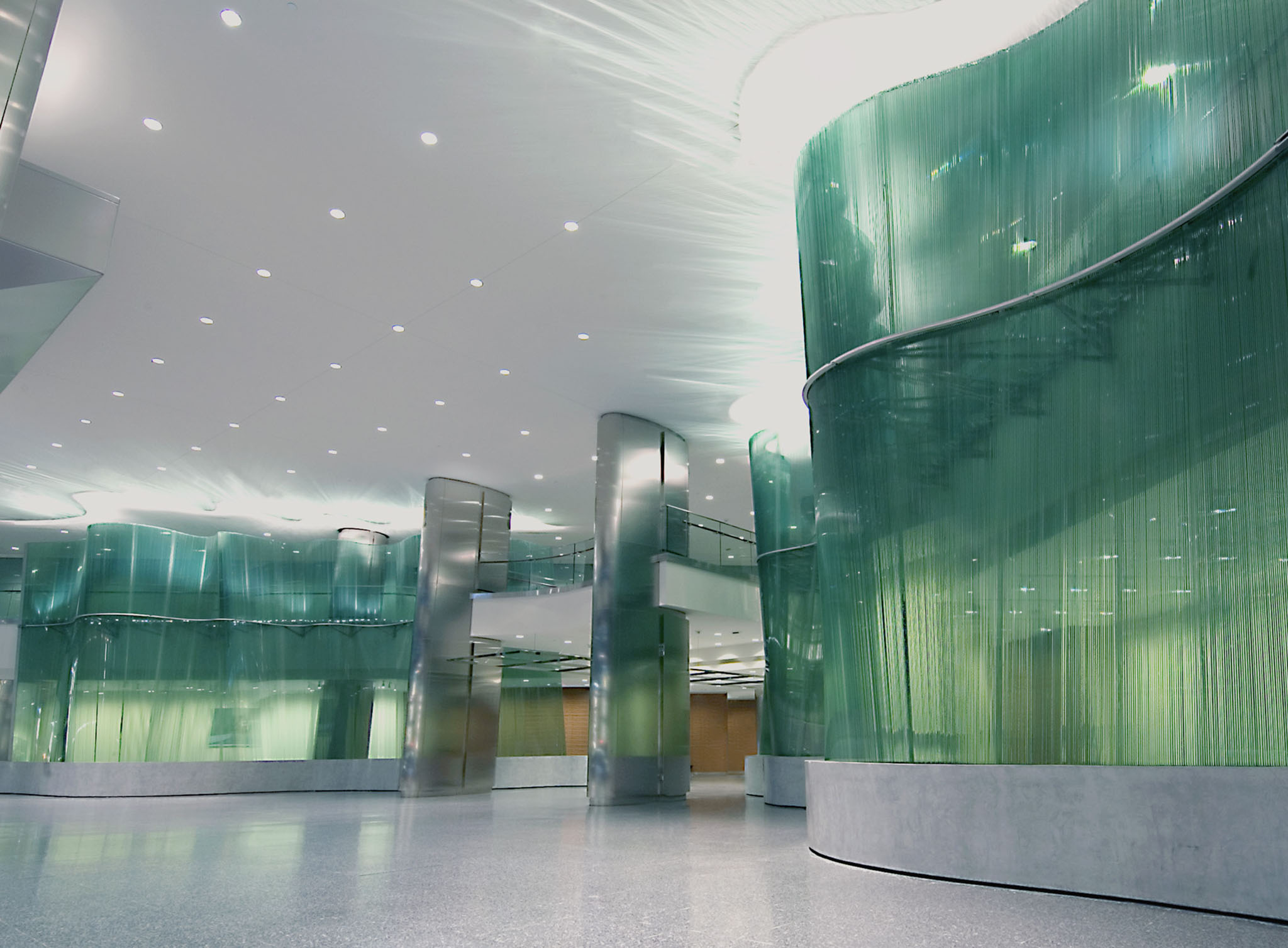 Borealis, Danny Lane, 2005, Glass, steel